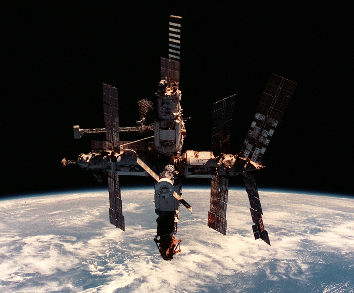 As photographed through a hatch window on the Space Shuttle Discovery, Russia's Mir space station is backdropped against Earth's horizon. The photo was made during the final fly-around of the members of the fleet of NASA shuttles.